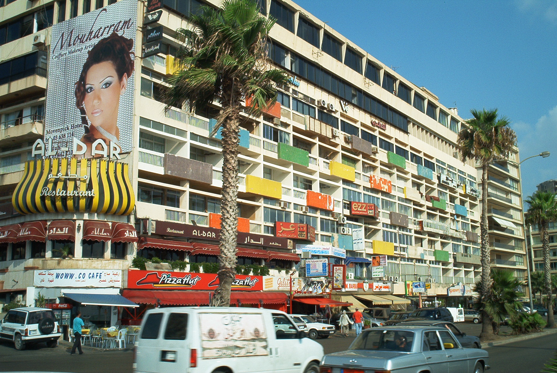 Street in Beirut - 7 January 2001